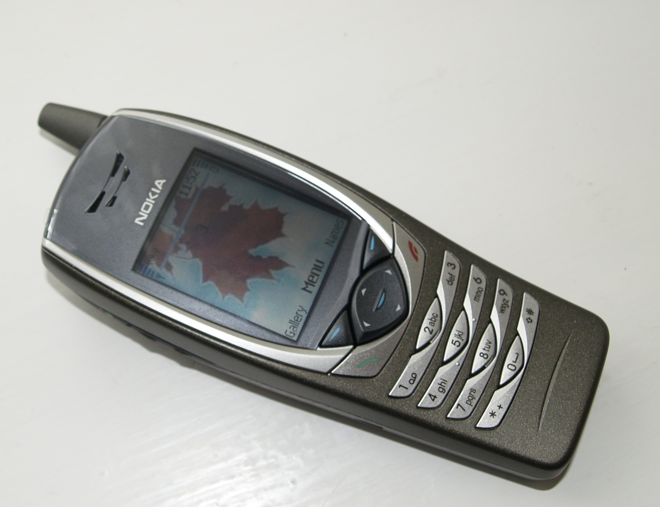 Nokia 6650 (original) unlocked